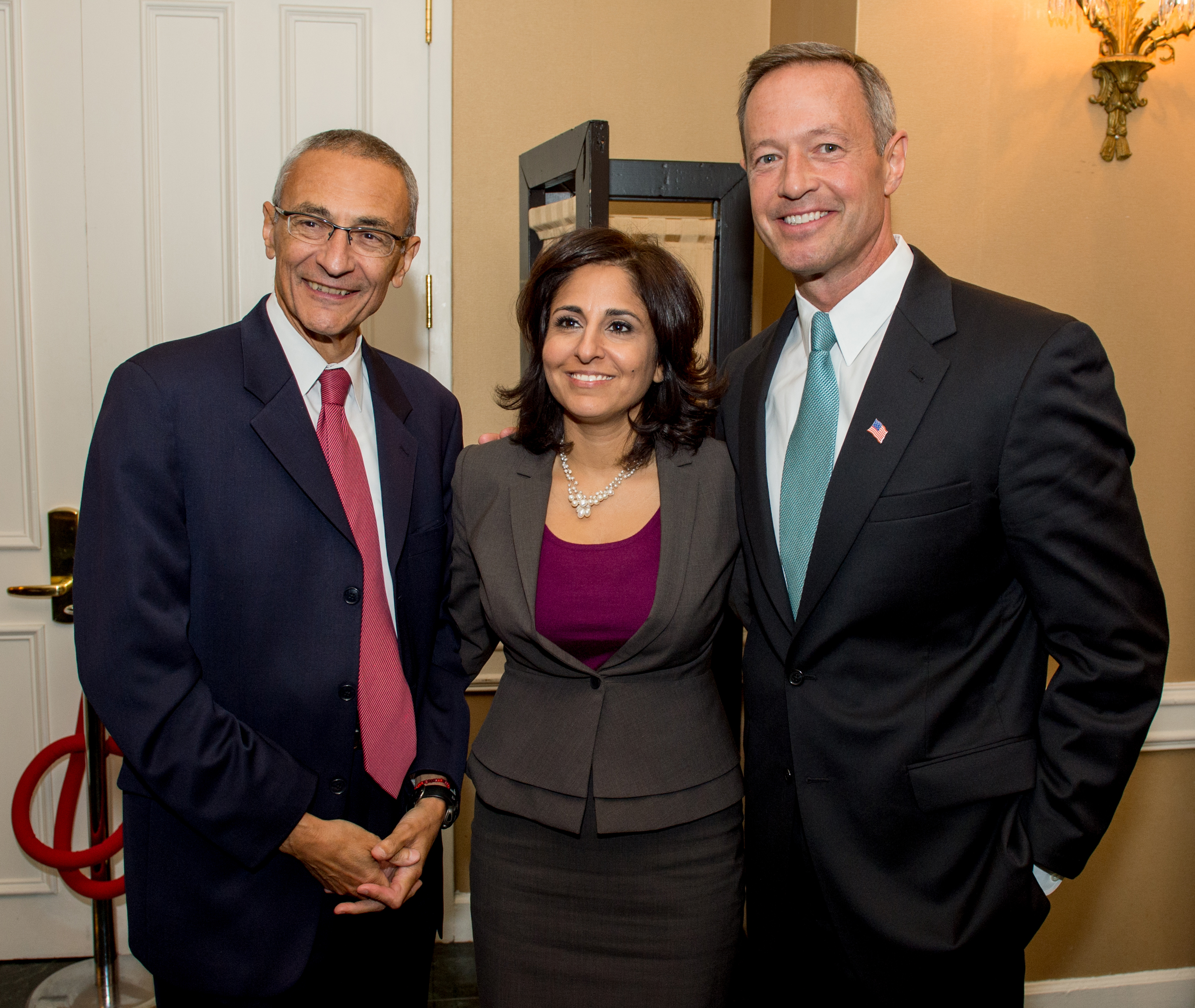 Center For American Progress. by Jay Baker at Washington, DC.